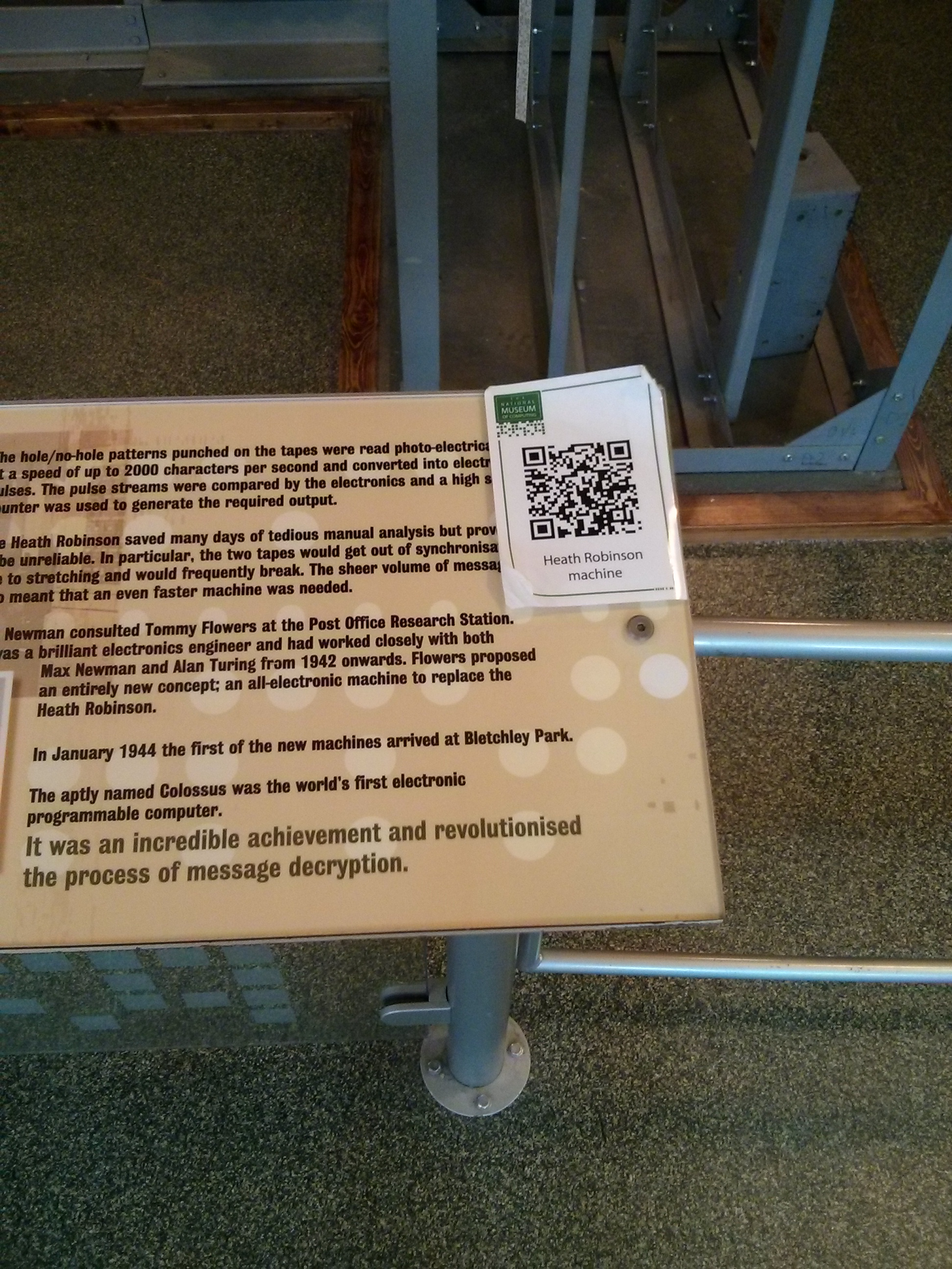 heath Robinson at national computing centre at bletchley park